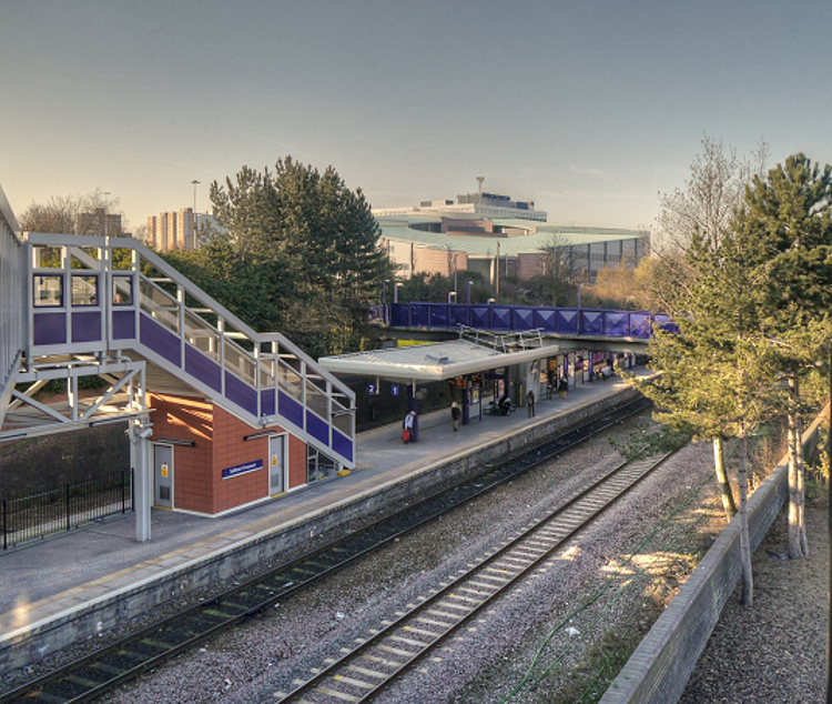 Salford Crescent Railway Station Salford Crescent is one of the busiest small stations in Greater Manchester, used by 1.5m passengers every year. A “victim of its own success”, fears grew that passengers could be accidentally pushed on to the tracks because of the daily commuter crush. Improvement work was carried out at the station during 2012-13 including platform extensions, a new rain canopy, and the relocation of the ticket office to street level